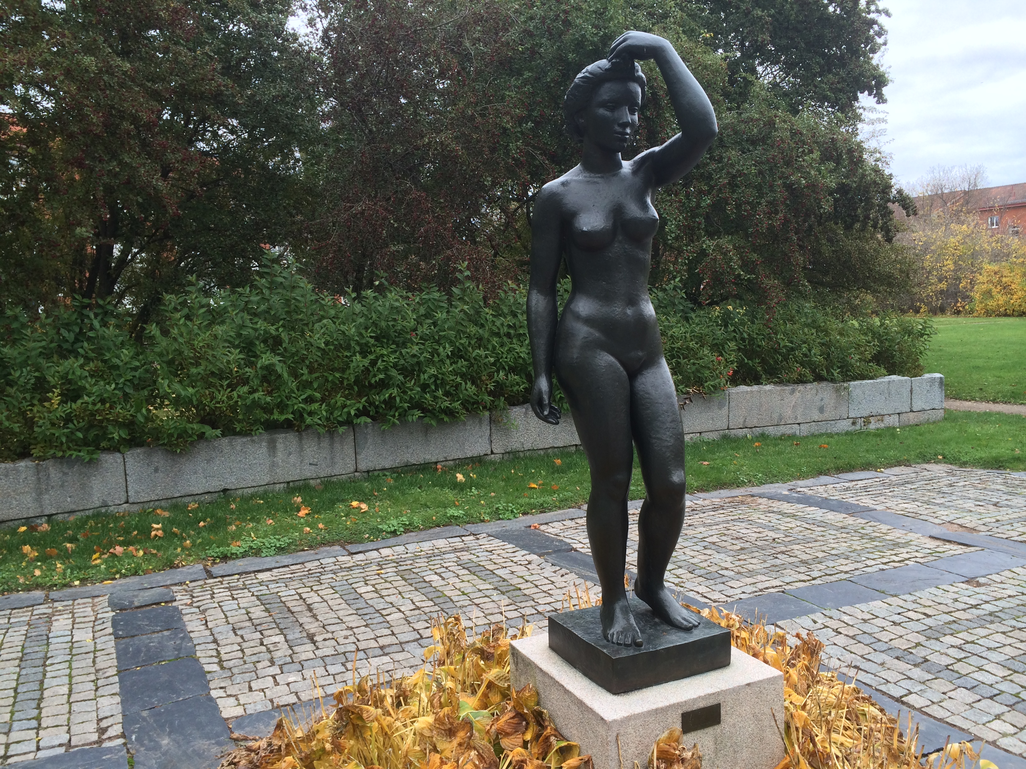 The staue called Flora placed in Uppsala